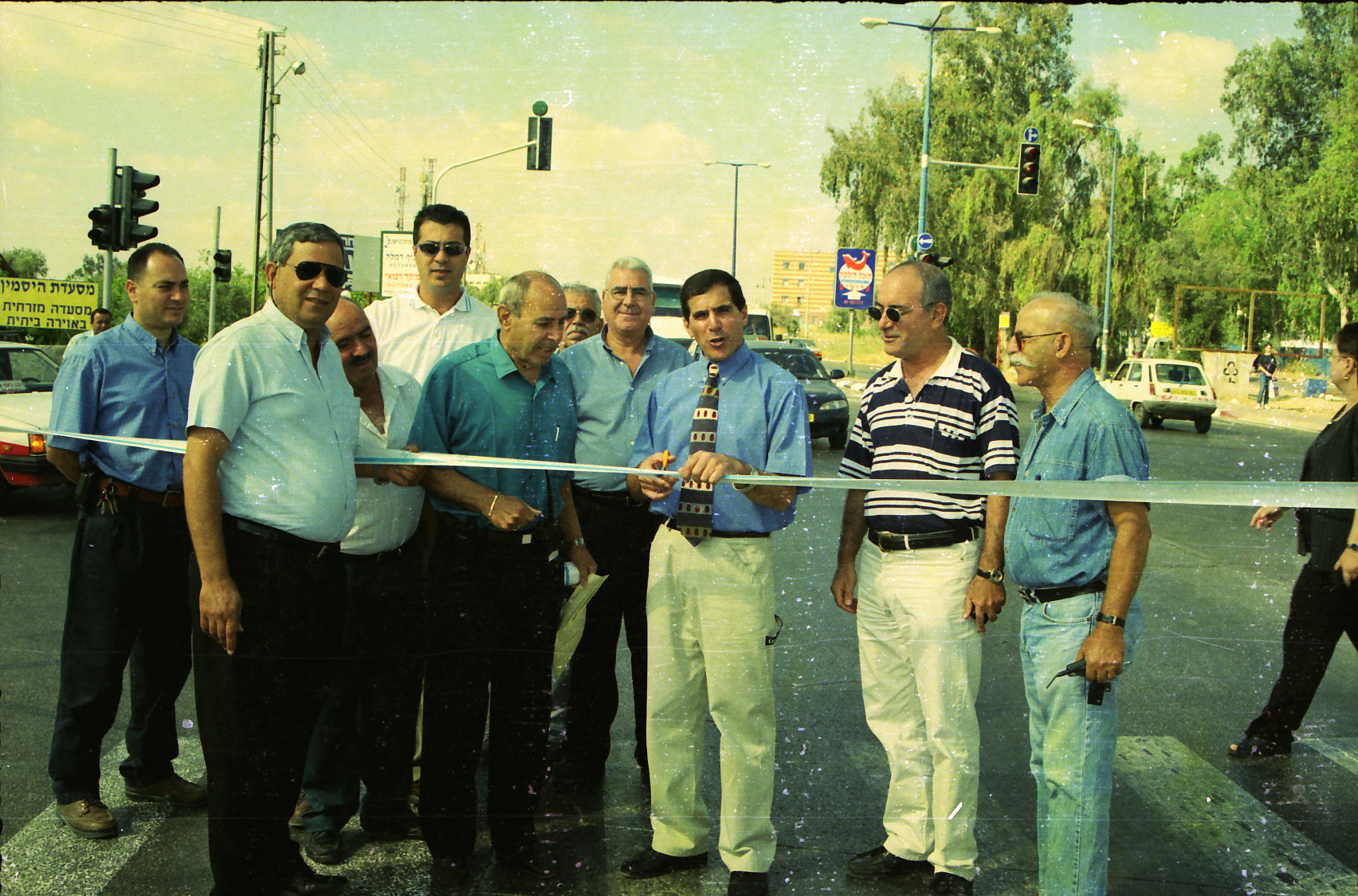 Events in Israel